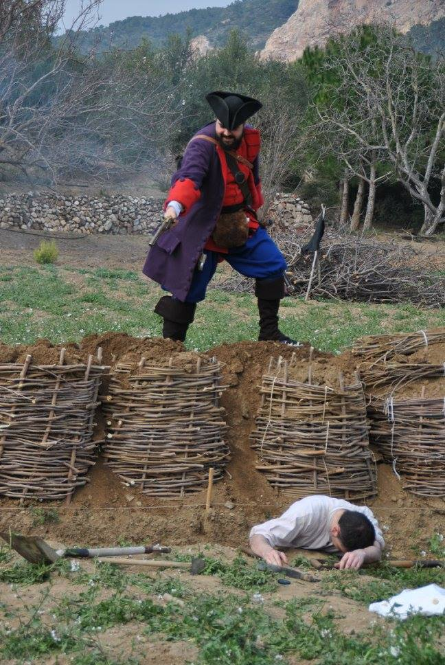 Miquelet assaluting a french trench. Reenactor of Miquelets de Catalunya